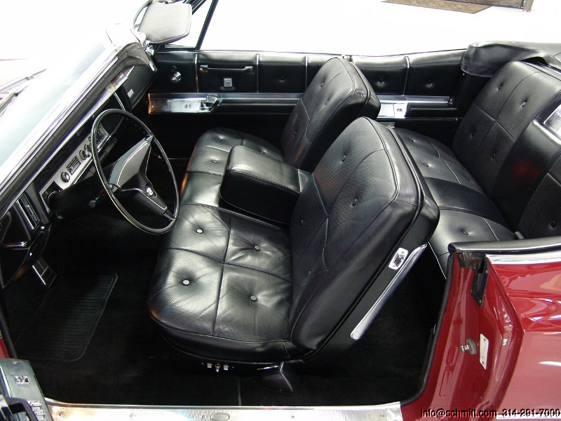 This is a picture of a vehicle (name of it is on the file name).